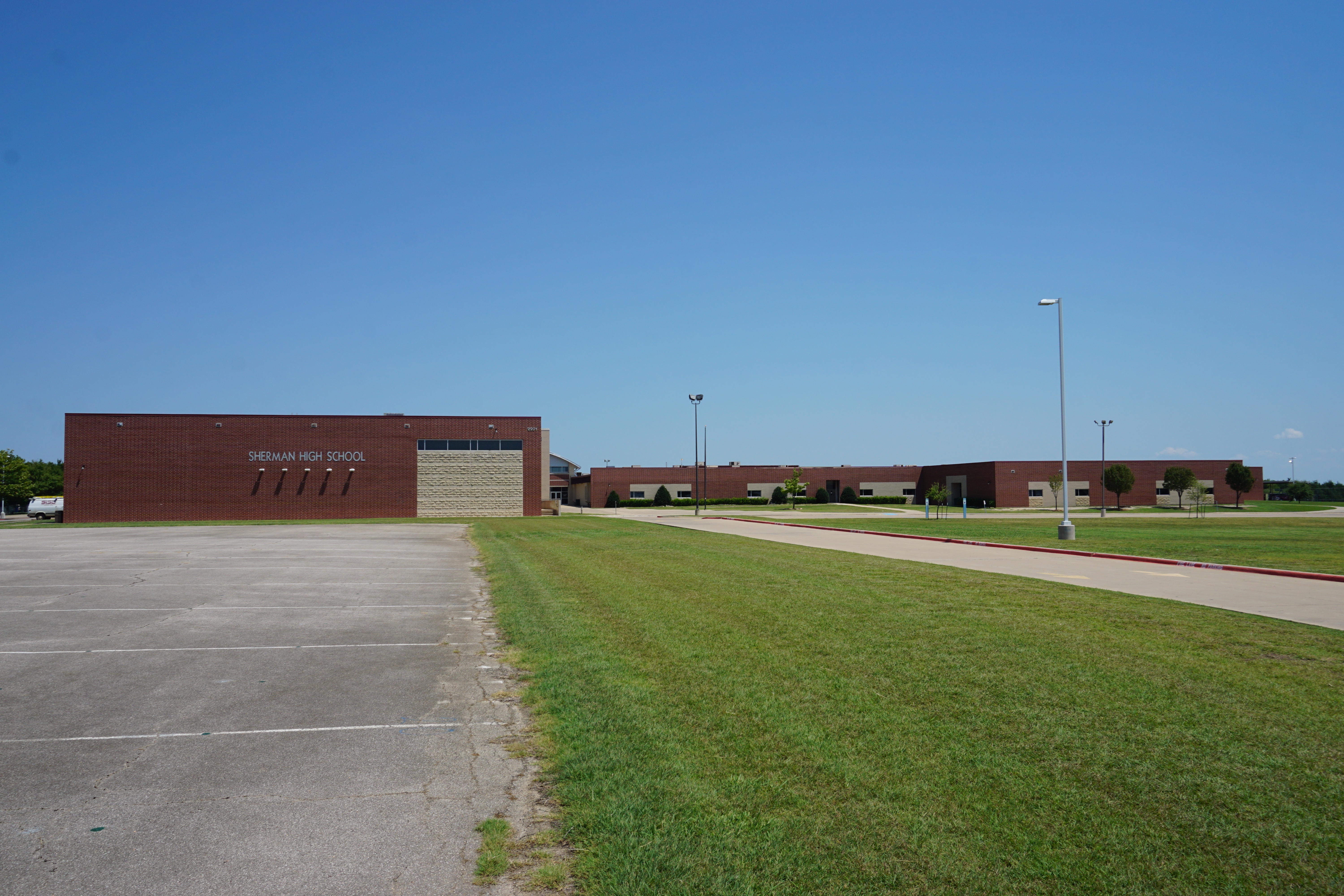 Sherman High School in Sherman, Texas (United States).